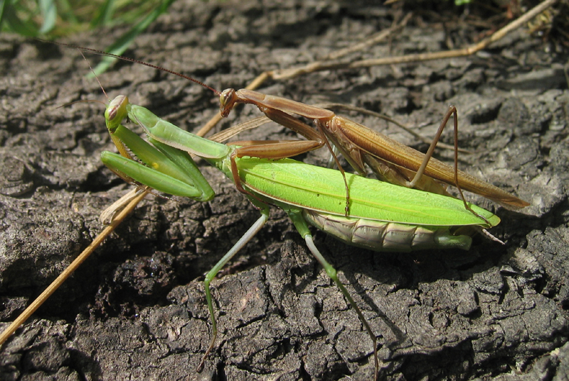 Couple of Mantis religiosa, Lower Austria